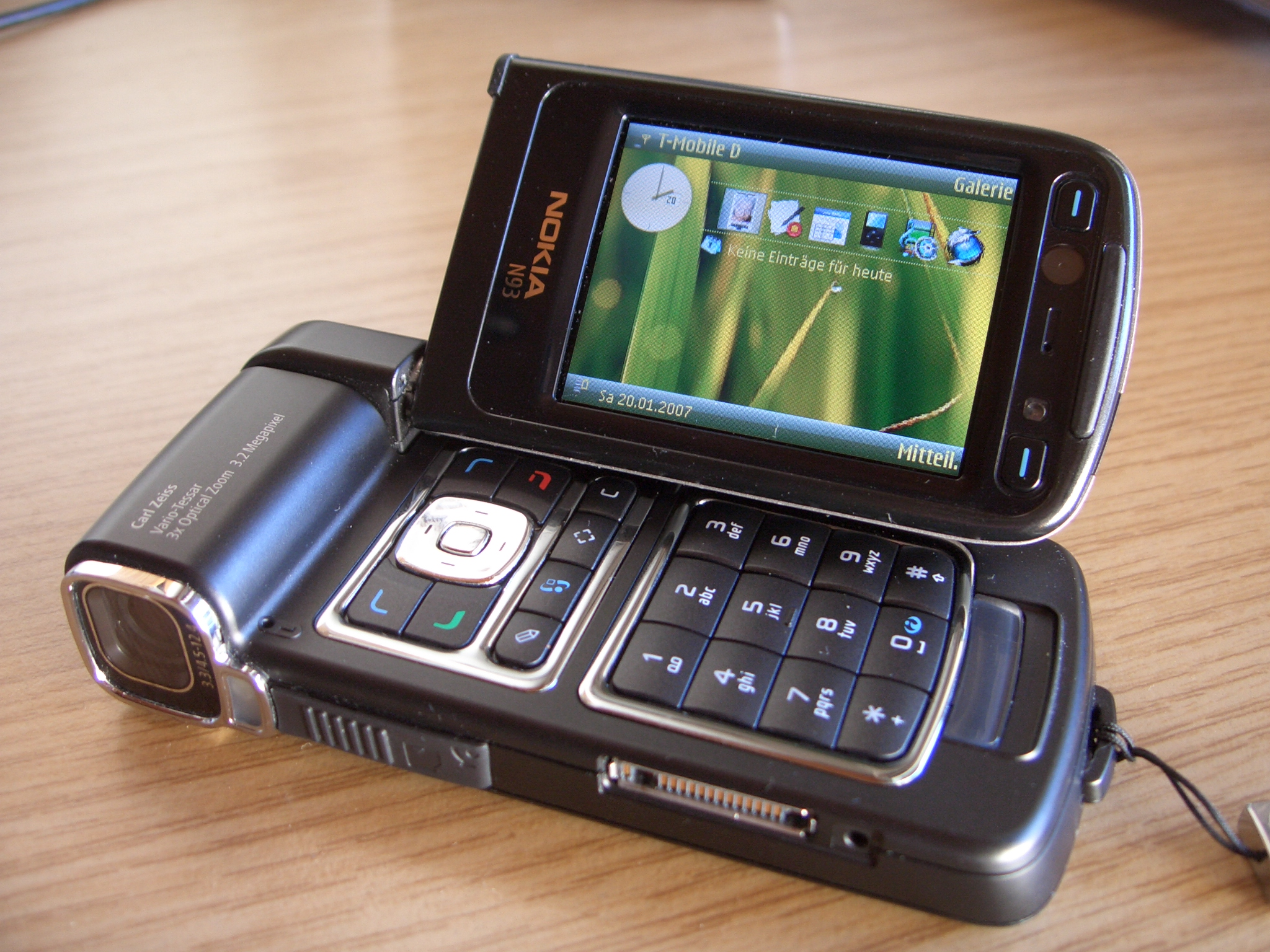 The Nokia N93-1, a Mixed mobile phone.